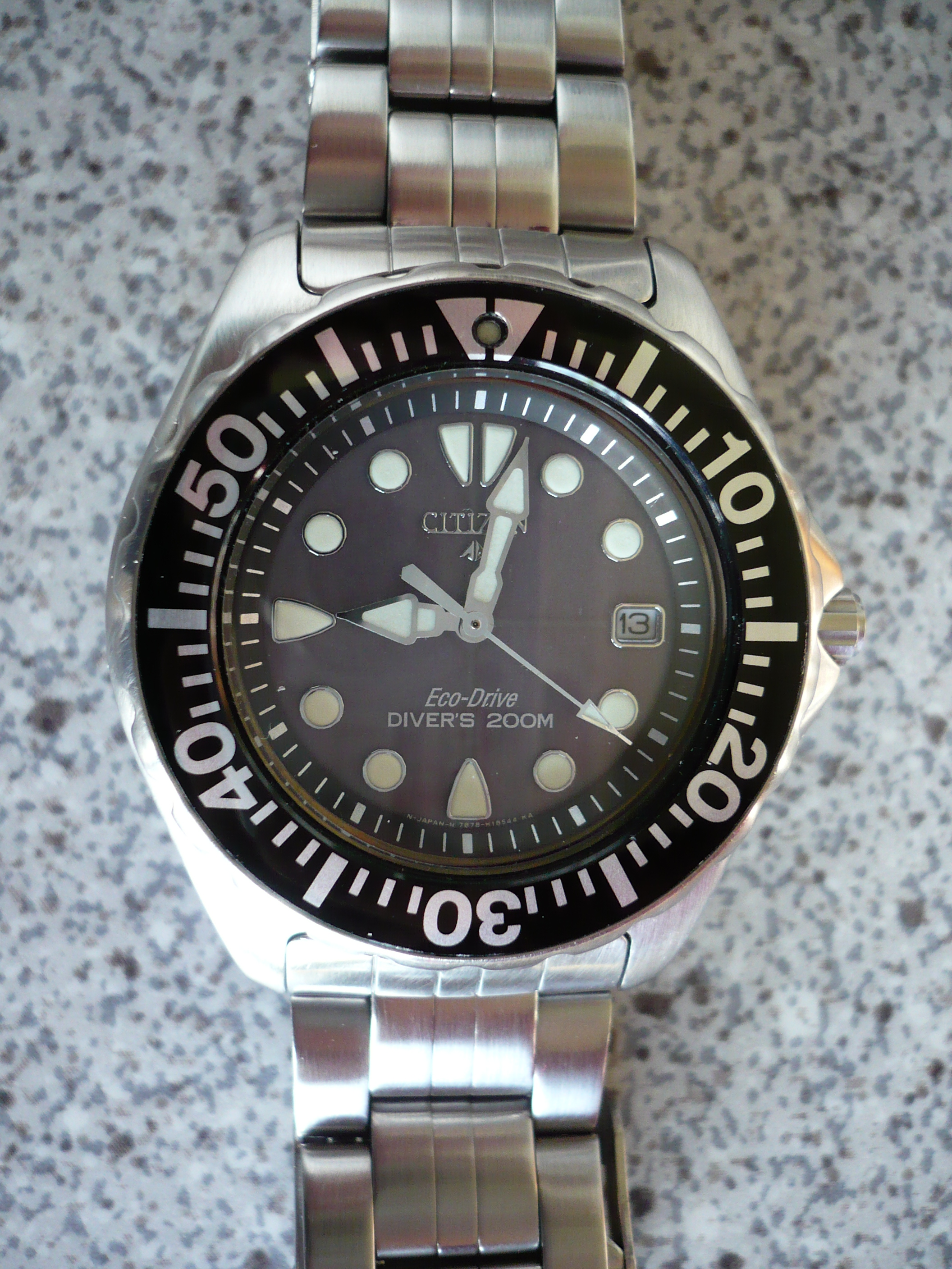 Citizen Promaster Eco-Drive AP0440-14F Diver's 200 m (tool watch suitbale for scuba diving) on a on a Citizen bracelet. Under the dail 4 solar cell segments are just visible. The 7878 caliber Eco-Drive movement used in this watch can run for 180 days on its secondary power cell before it needs light exposure.